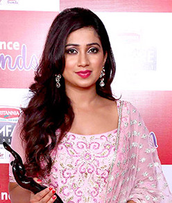 Shreya Ghoshal at the 62nd Britannia Filmfare Awards South 2014